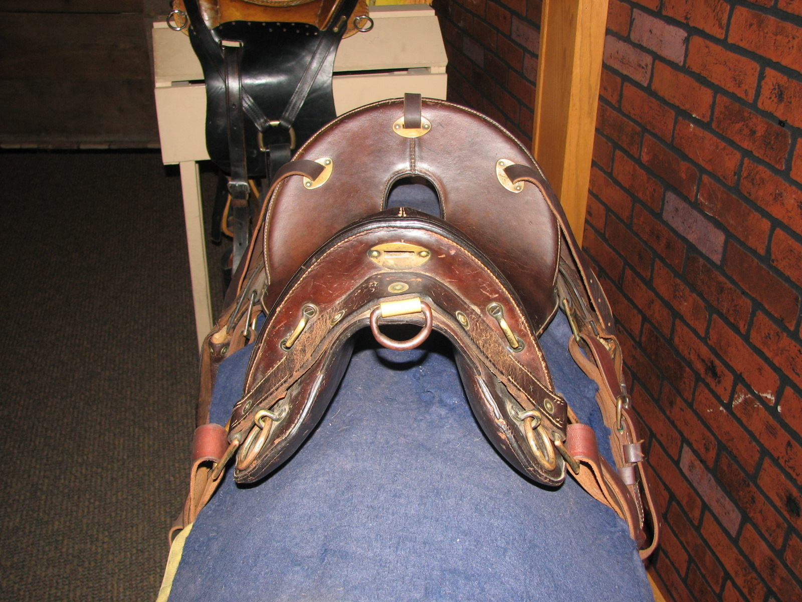 The McCellan Saddle was a riding saddle designed by George B. McClellan, a career Army officer in the U.S. Army, and adopted by the Army in 1859. The saddle continued in continuous use from the period of adoption until the U.S. Army's last horse cavalry and horse artillery was dismounted in World War Two. Even at that, the saddle has continued on in use with ceremonial units in the U.S. Army which continue to use horses. Front view Photo taken at Ft. Kearny Nebraska State Park, USA